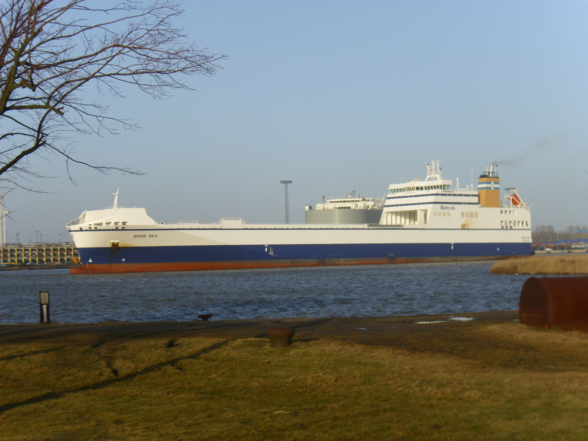 The RORO ship Bore Sea is leaving the port of Bremerhaven. Details of the ship: external website.